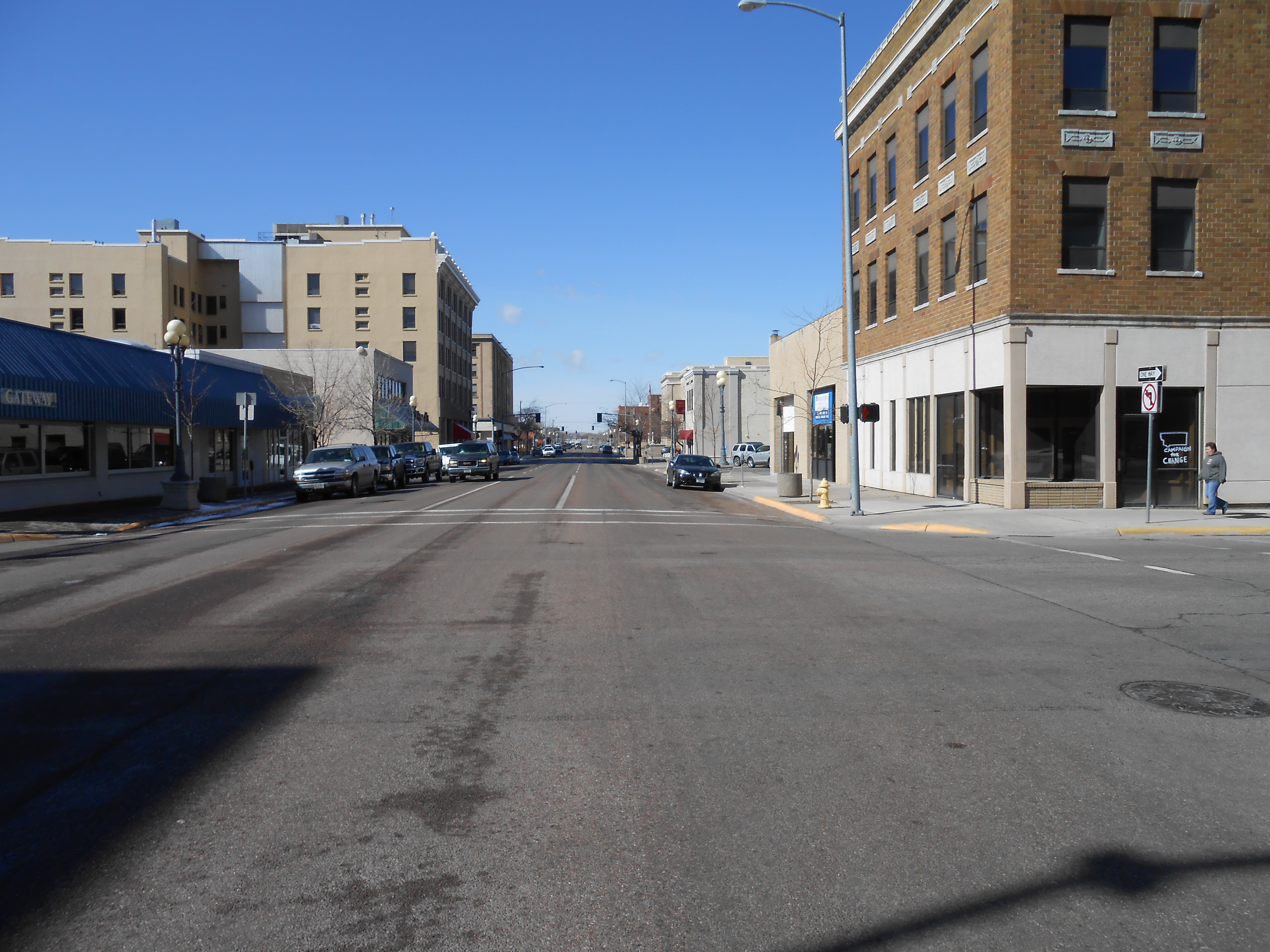 First Avenue North, looking west from intersection of 4th St N and 1st Ave N, Great Falls, Montana. Part of Central Business Historic District